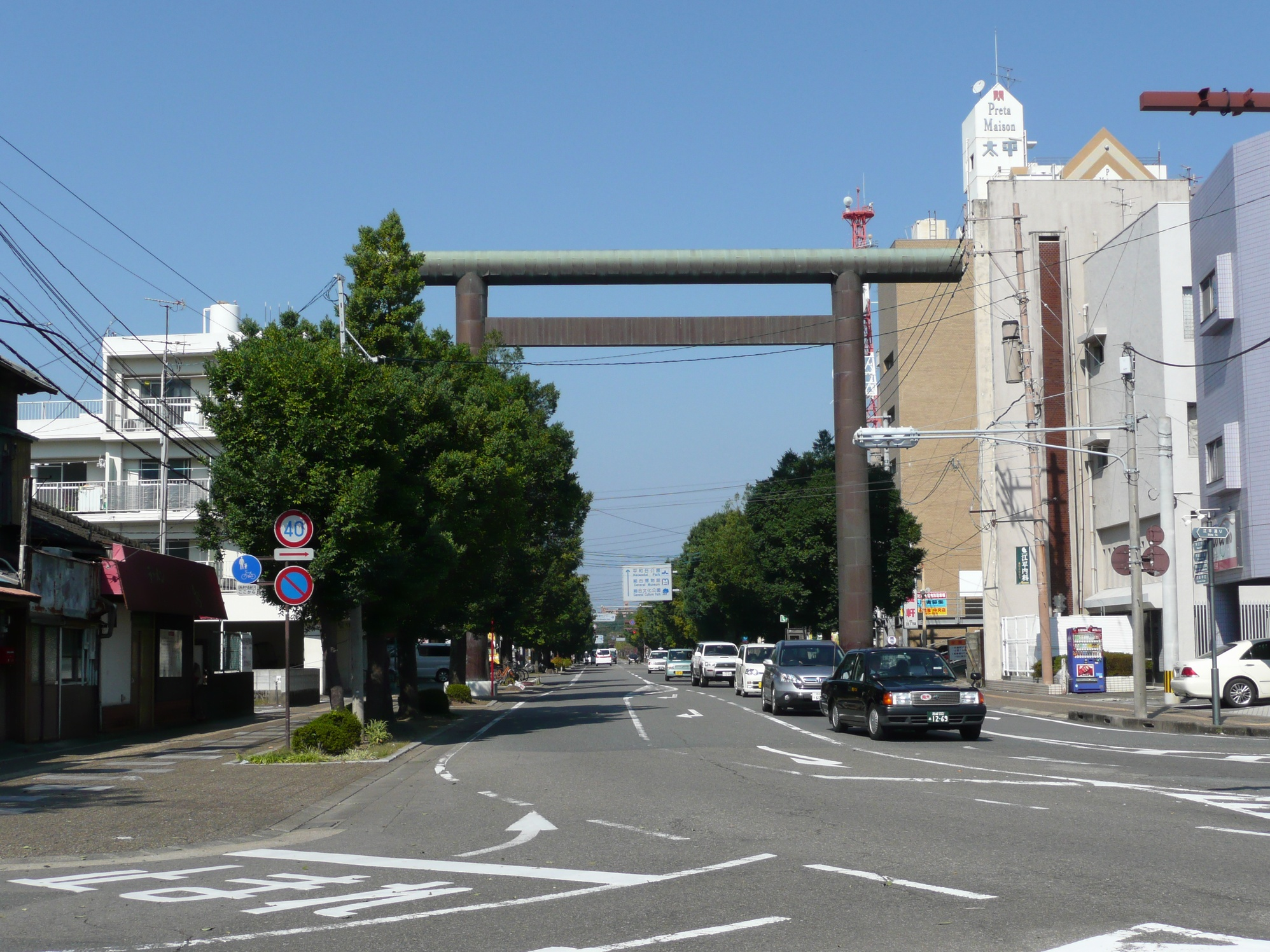 Miyazaki Prefectural Road No.44 Miyazaki-Takanabe Line - Origin (Miyazaki City, Miyazaki, Japan)